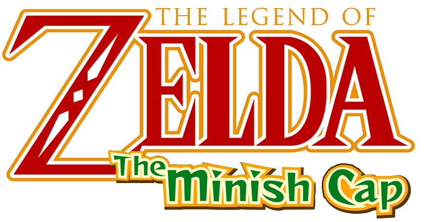 Logotype of The Legend of Zelda: The Minish Cap.